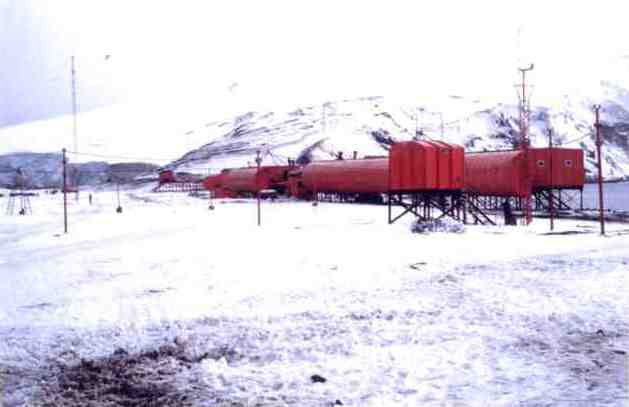 A photograph of the (now defunct) Argentine station Corbeta Uruguay on Thule (Morrell Island), Southern Thule Islands group in the South Sandwich Islands